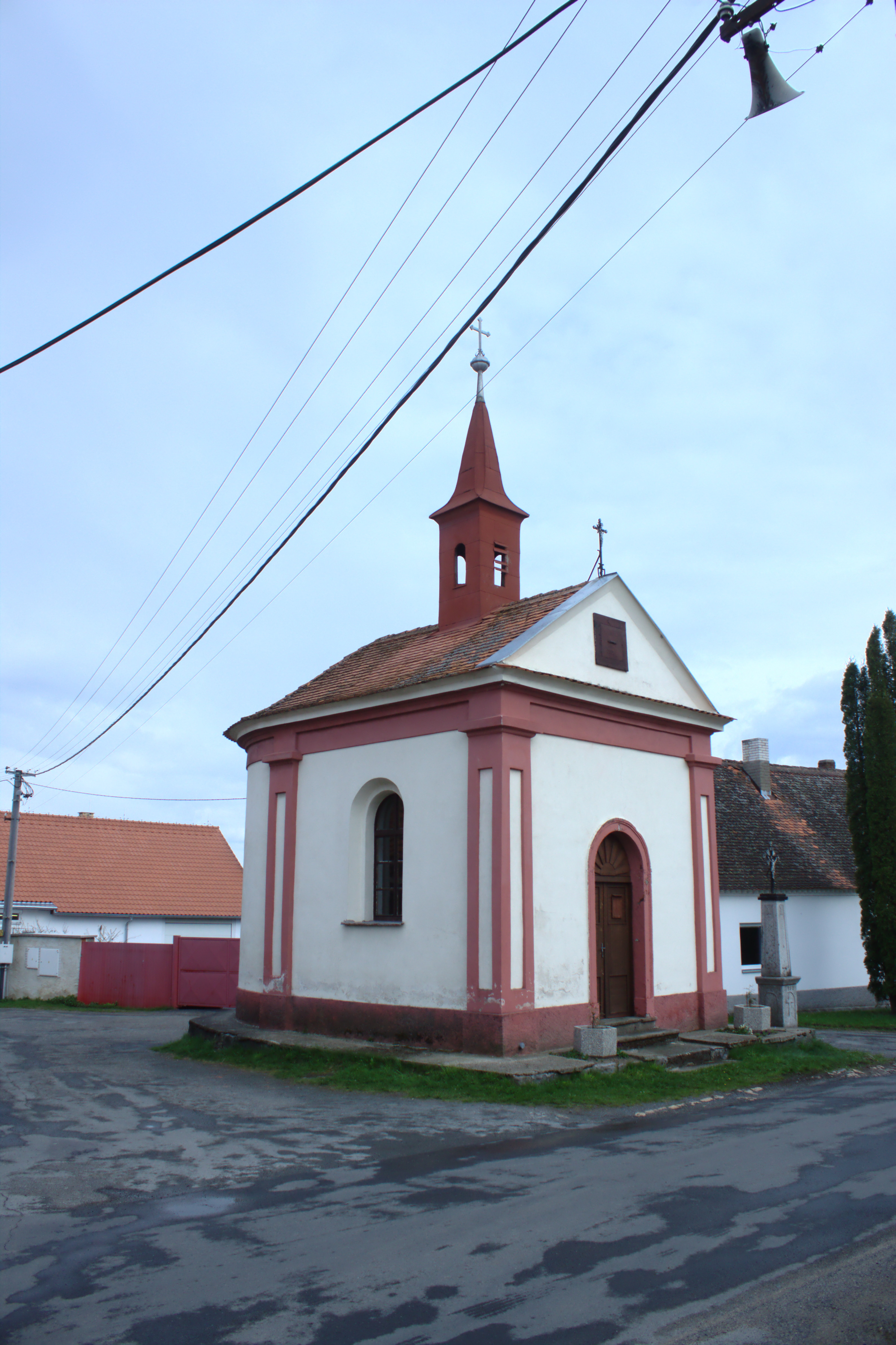 A chapel in the central part of the village of Třebomyslice, Plzeň Region, CZ